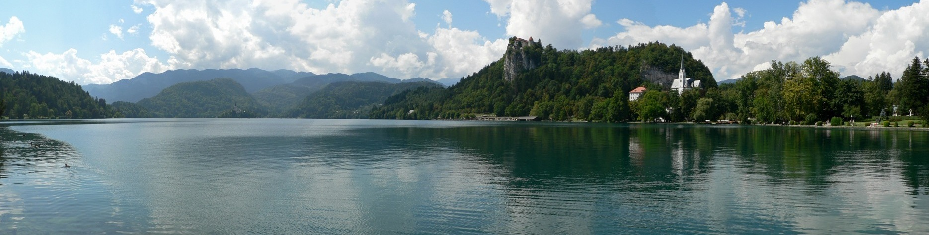 Panoramic view of Lake Bled, Slovenia.